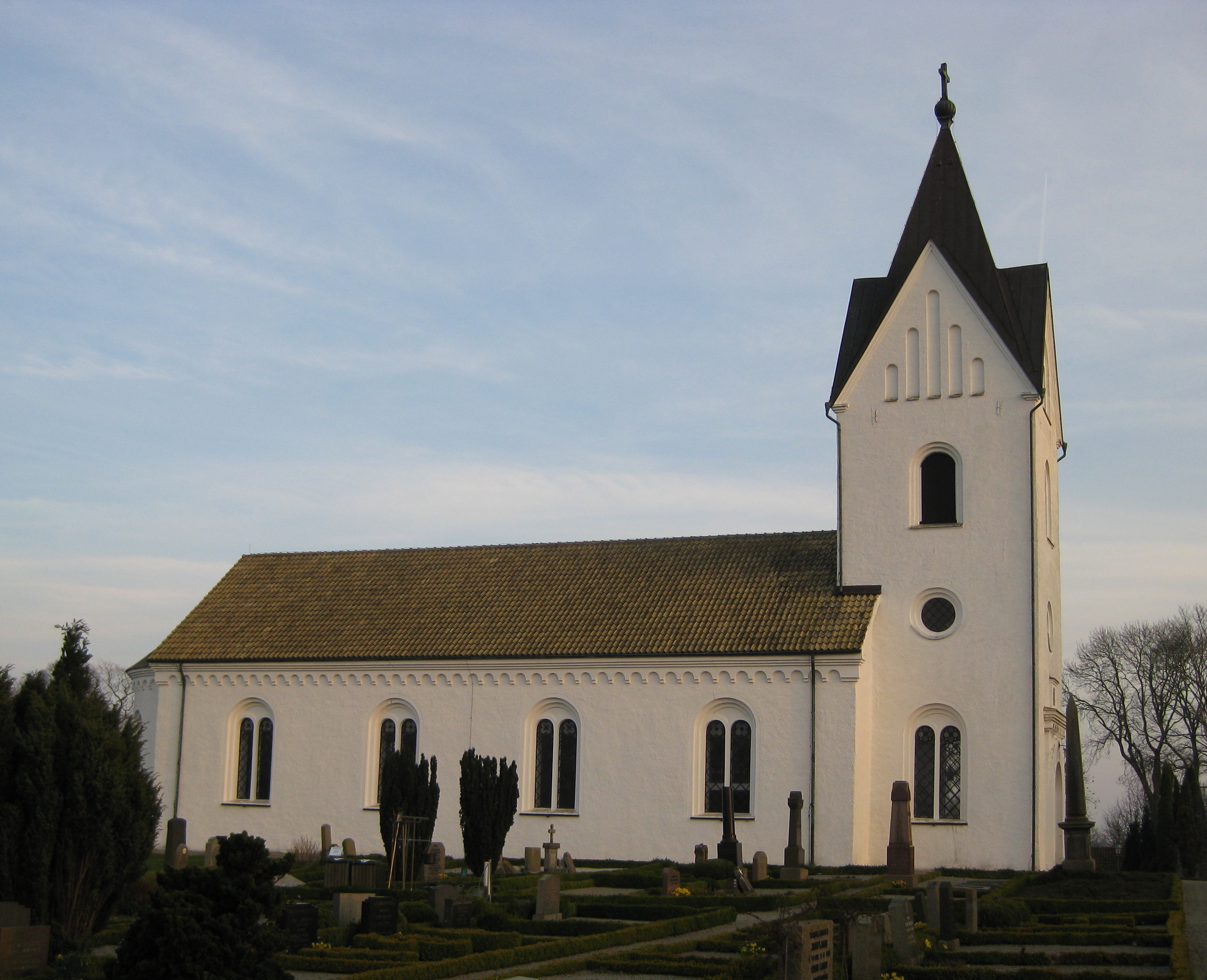 Lilla Isie church in Skåne, Sweden